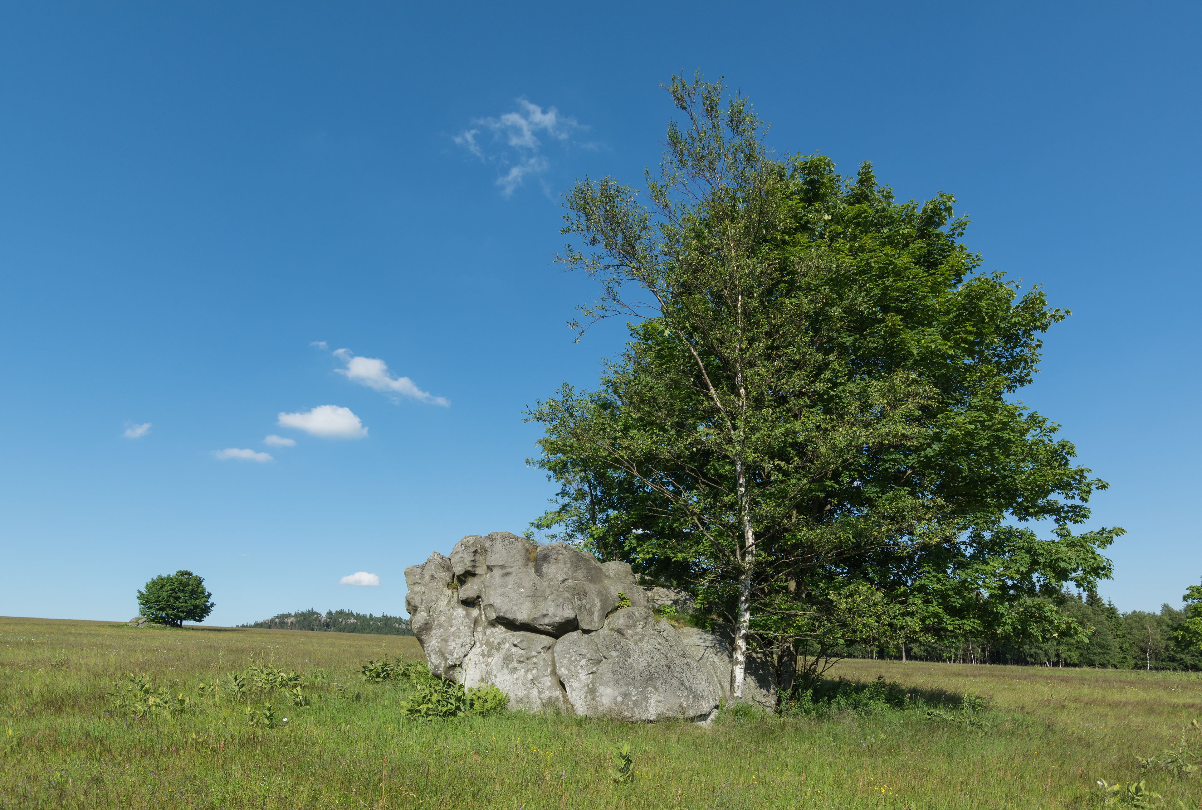 Łężyckie Rocks, Stołowe Mountains, Sudetes